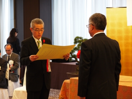 Yoshio Maki, Senior Vice-Minister of Health, Labour and Welfare, awarded a certificate of commendation at the Tokyo Kaikan in Chiyoda Ward, Tōkyō Metropolis on October 5, 2011. (For terms of use, see 利用規約｜厚生労働省.)